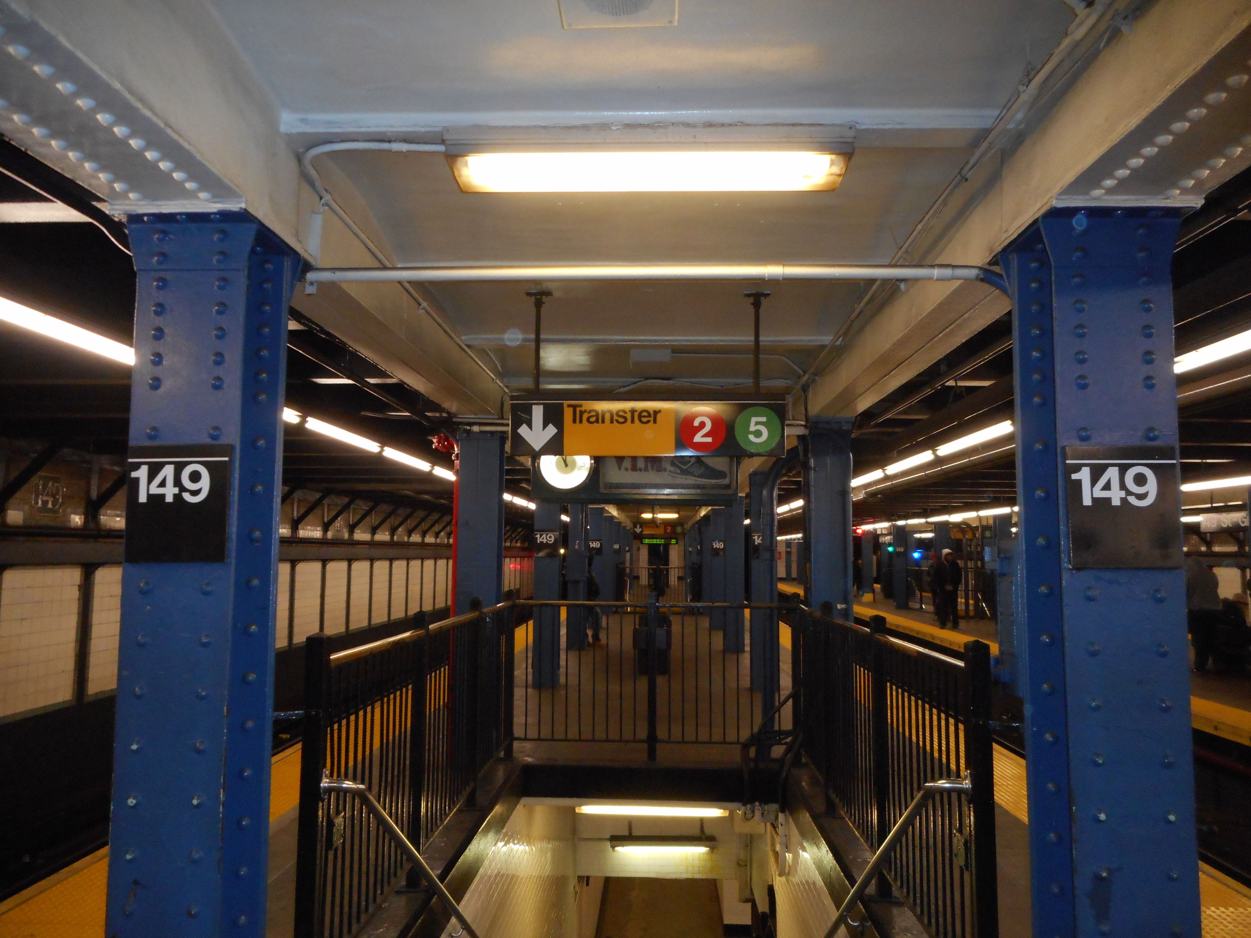 Sign along the 149th Street – Grand Concourse (IRT Jerome Avenue Line) station platforms, pointing to a transfer staircase to the 149th Street – Grand Concourse (IRT White Plains Road Line) station. It was worth capturing just for the yellow Helvetica sign.